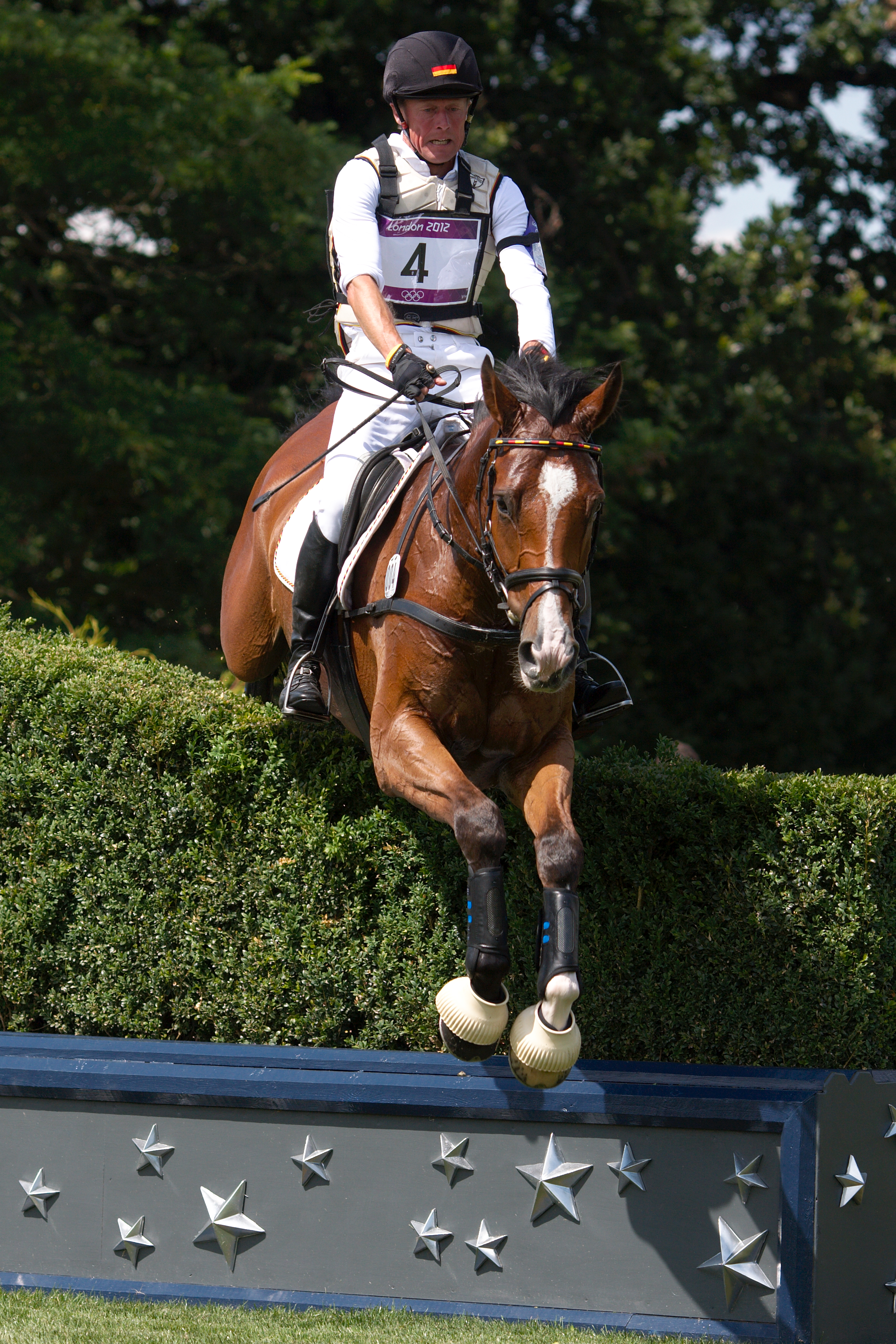 Peter Thomsen and Barny, competing for GER, at fence 26, during the cross-country phase of the Eventing during the 2012 Olympic Games in Greenwich Park, London.